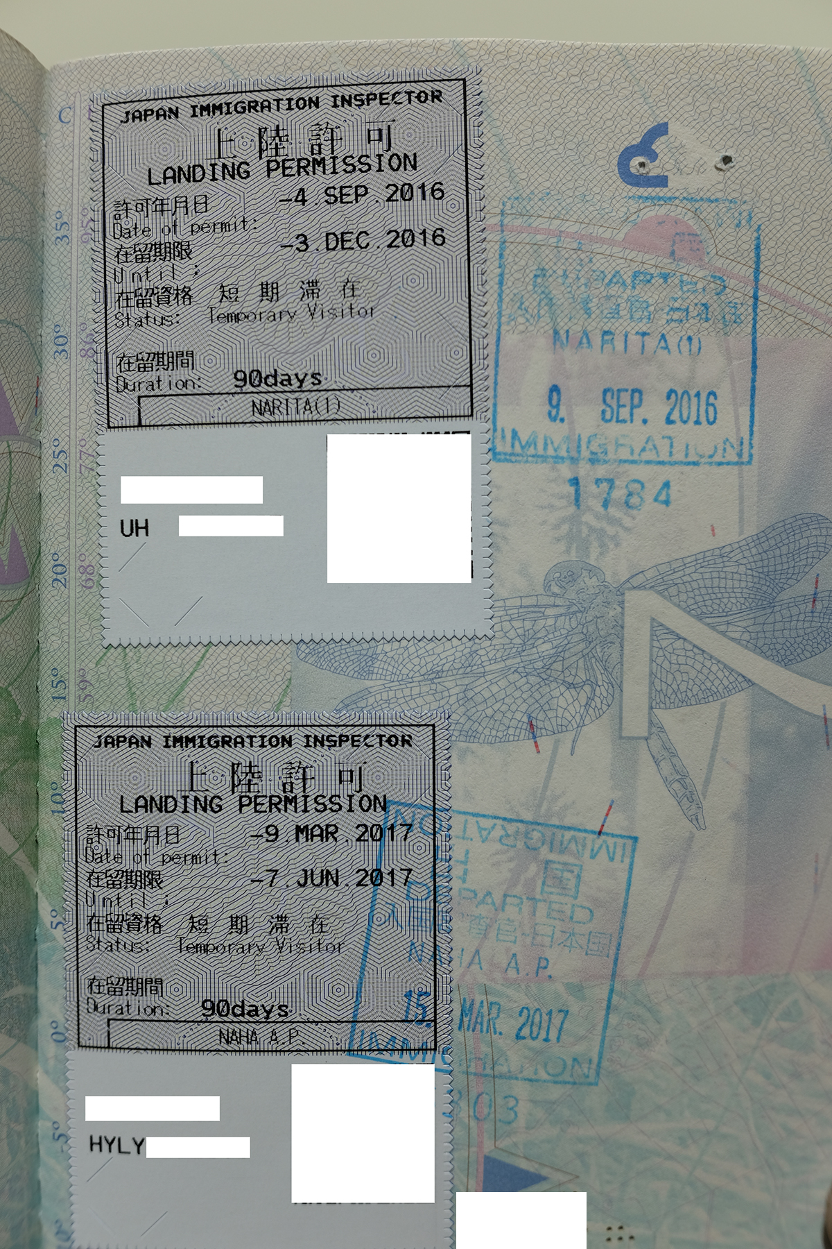 Japan landing permission stickers and departed stamps issued from Narita International Airport and Naha Airport